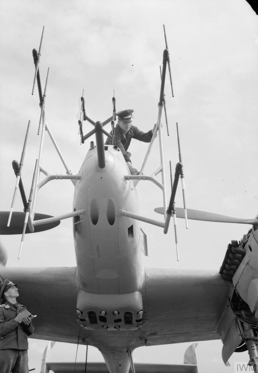 FuG 220 and FuG 202 (center) "Lichtenstein" night fighter radar equipment on the nose of a Messerschmitt Me 110 G-4 being serviced by German Air Force (Luftwaffe) ground crew on Grove airfield, Denmark, in August 1945, before the aircraft was sent to the UK for research.